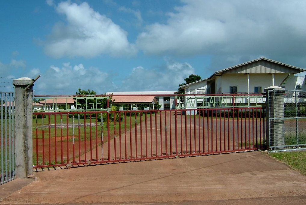 Vaimoana school (collège) in Lavegahau, Wallis island